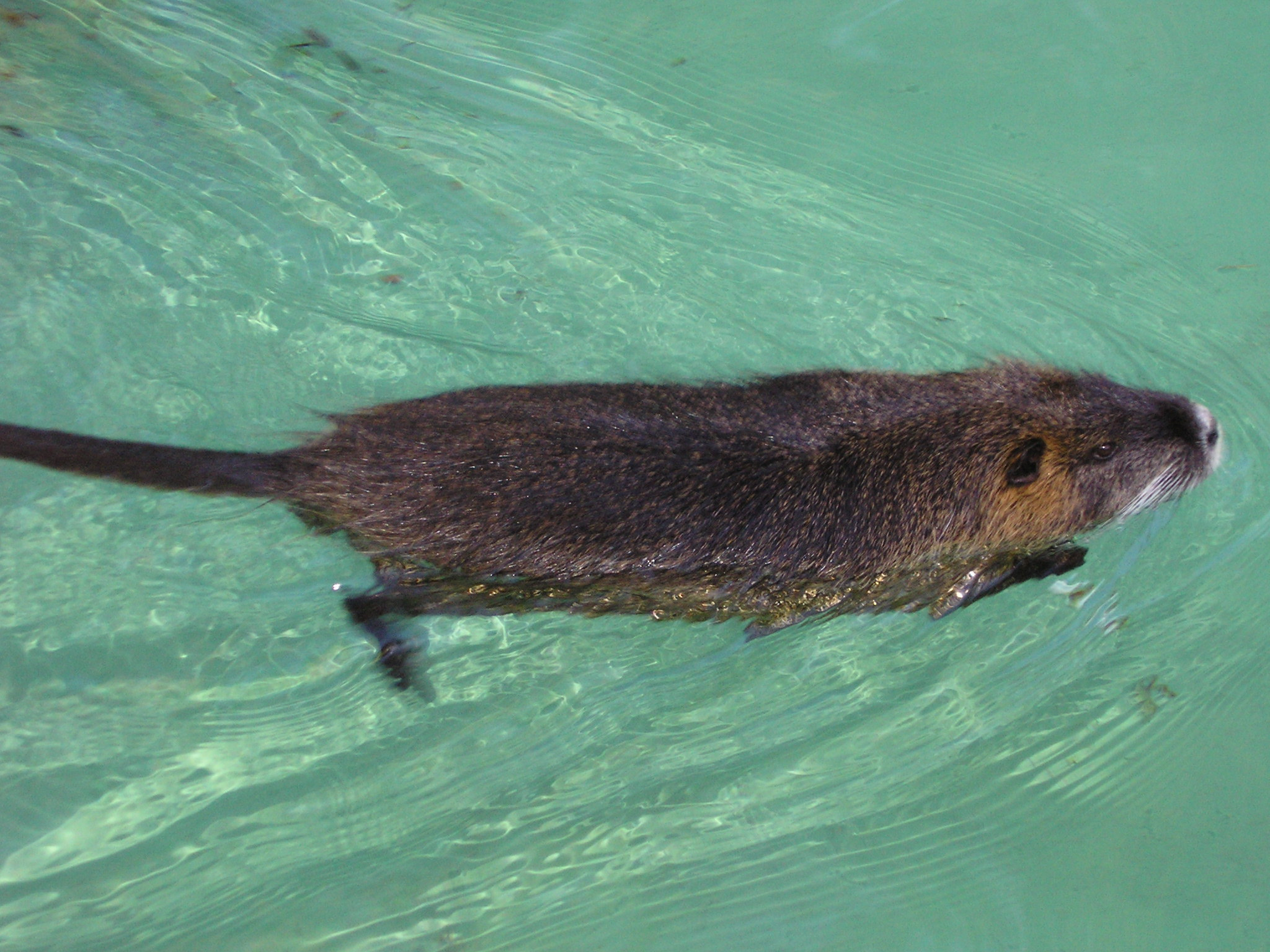 Coypu in Maksimir zoo, Zagreb, Croatia.